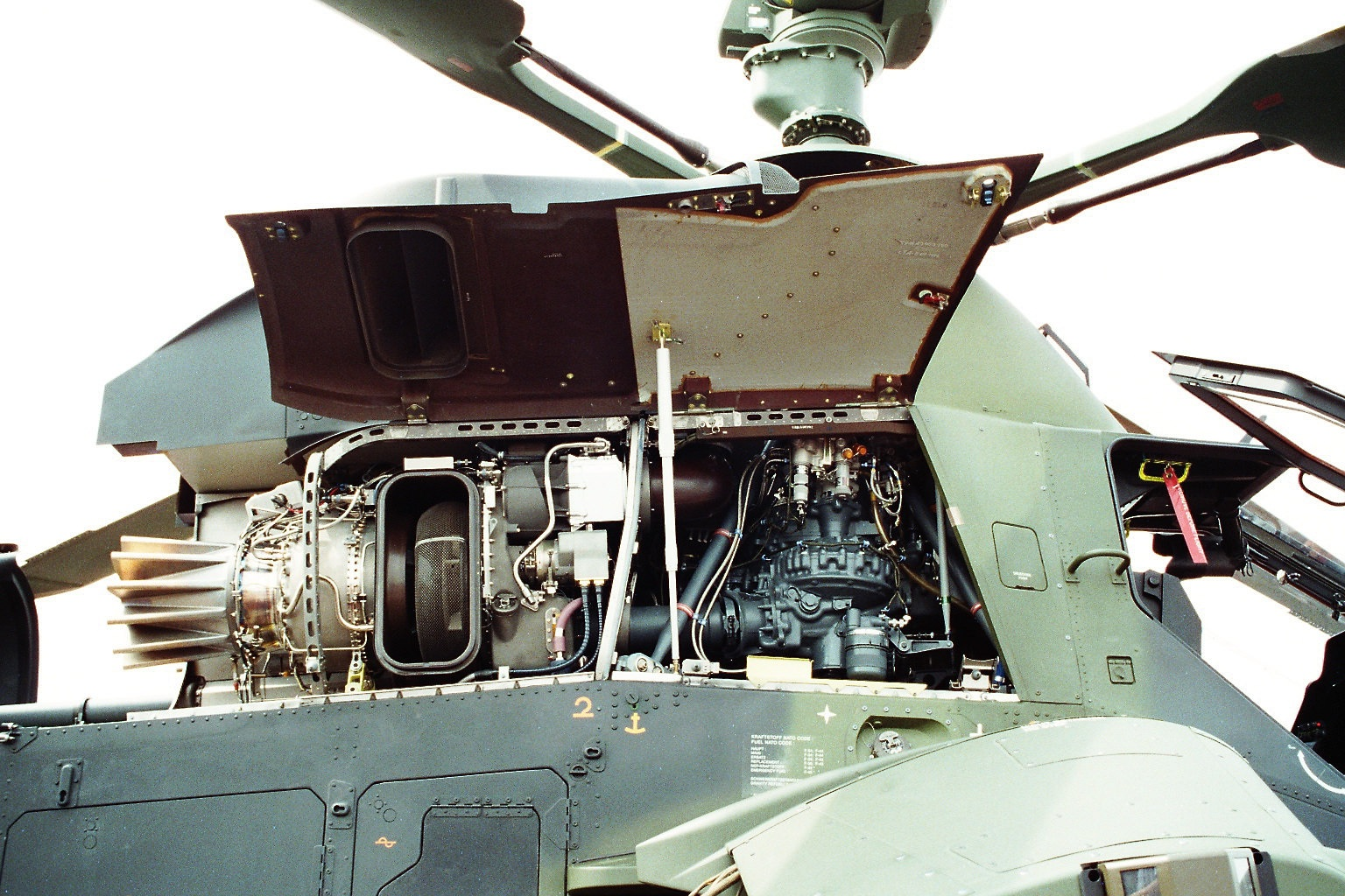 Engine of a Eurocopter Tiger UHT, photographed at the Helidays 2008 in Fritzlar